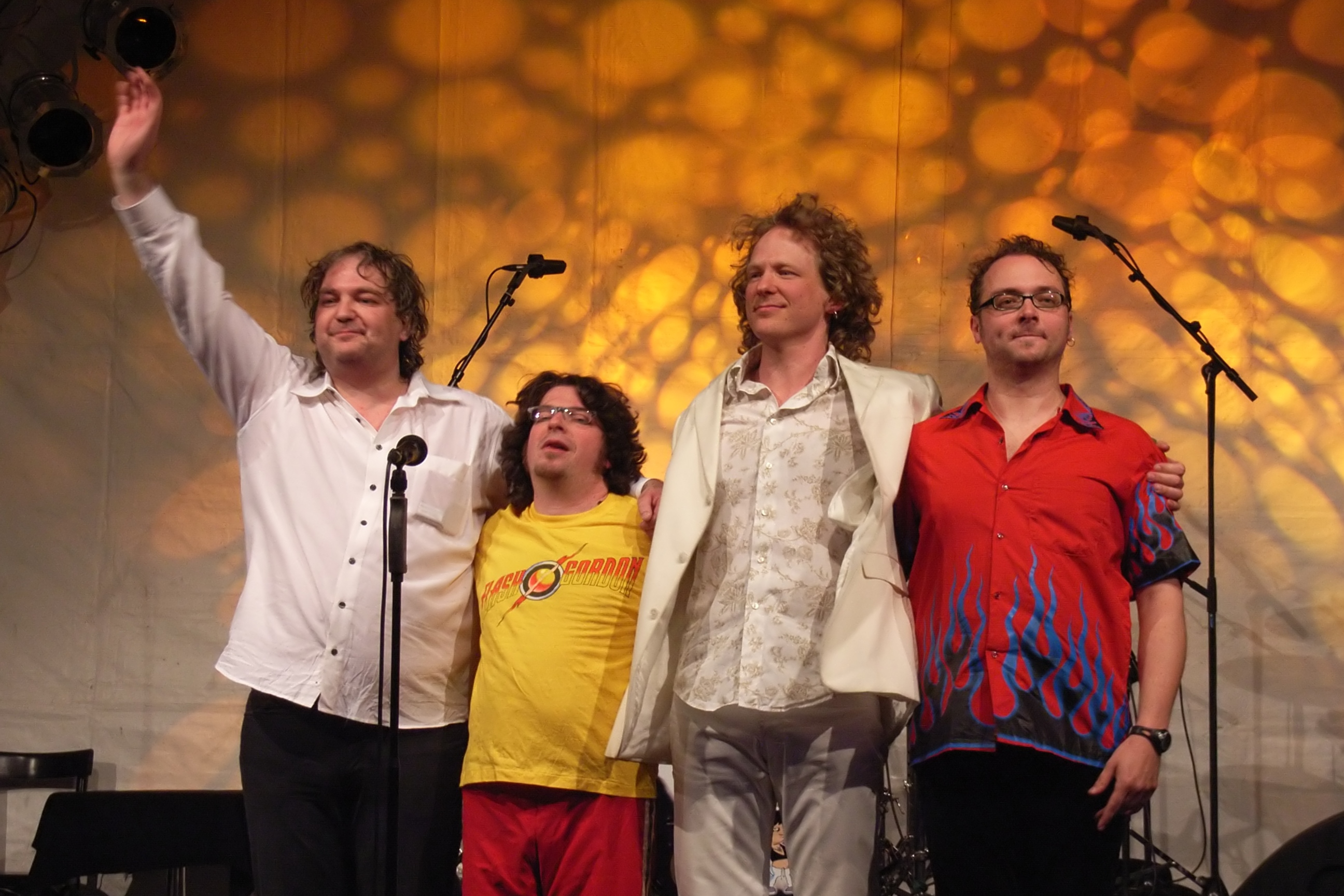 Queen tribute band Burger Queen during a concert at the Leinewebermarkt in Bielefeld on 23 May 2008.